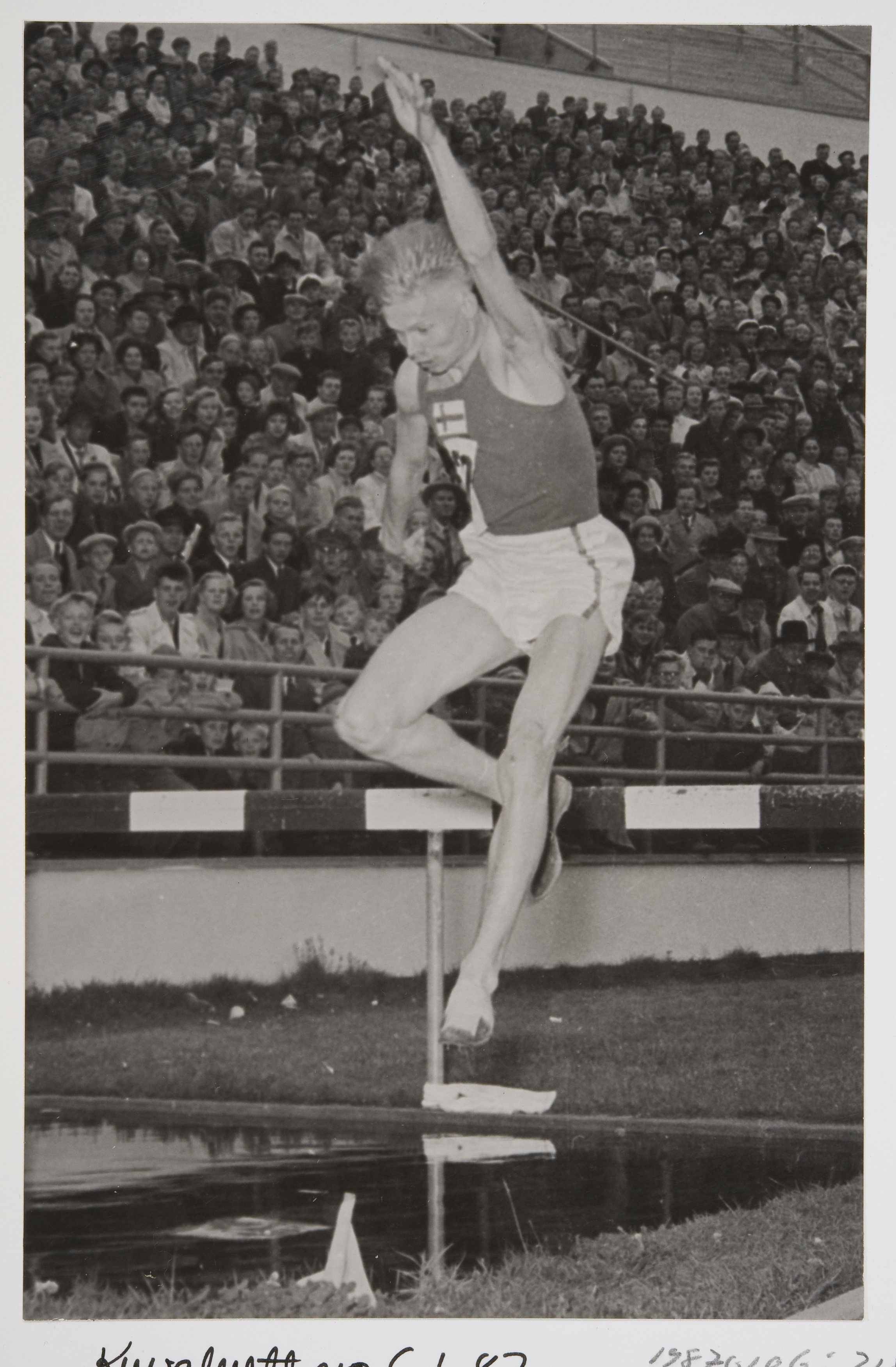 Erik Blomster at 1950 European Athletics Championships